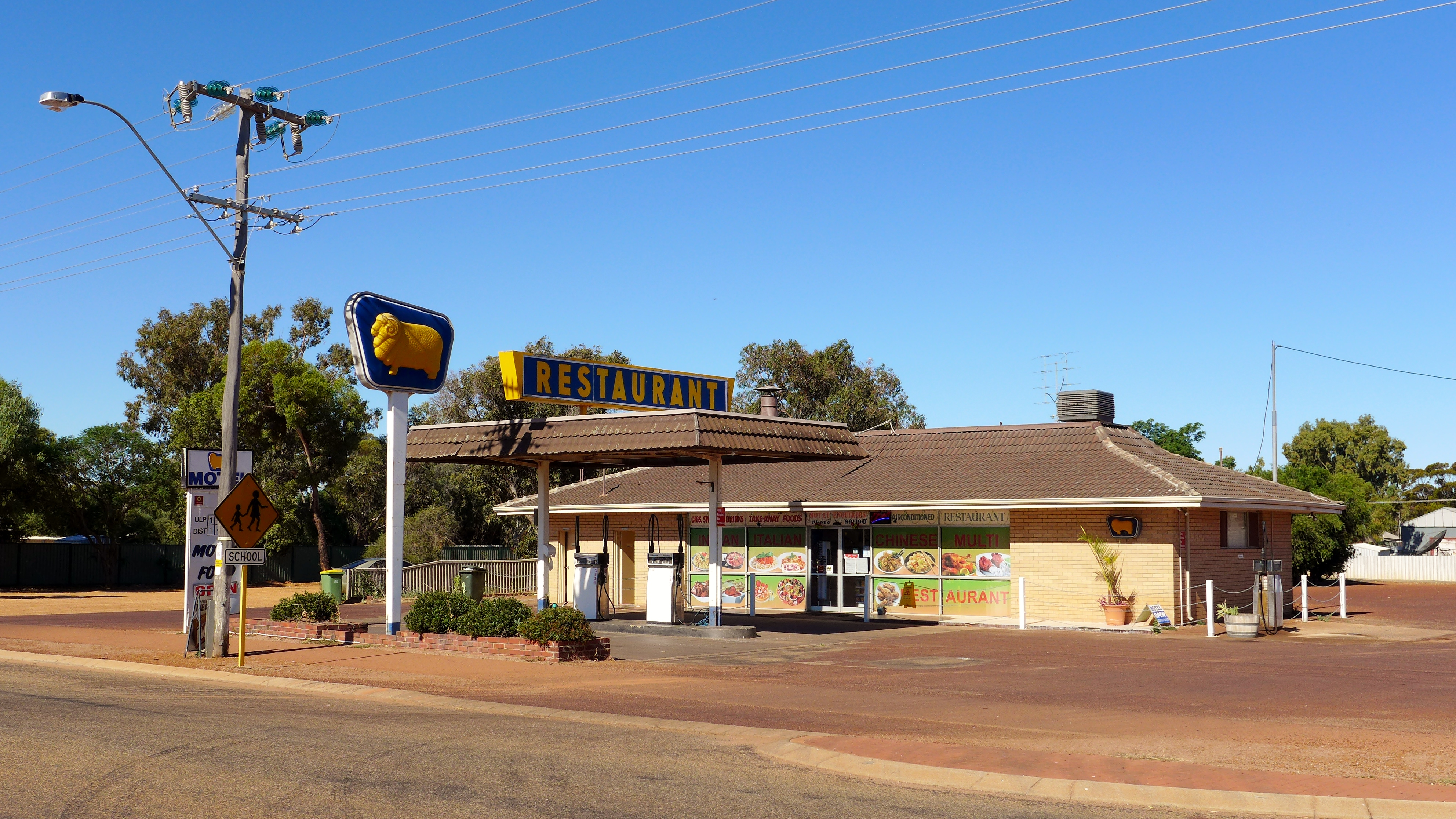 View of the Kondinin Roadhouse Motel, 64-68 Graham Street, Kondinin, Western Australia.